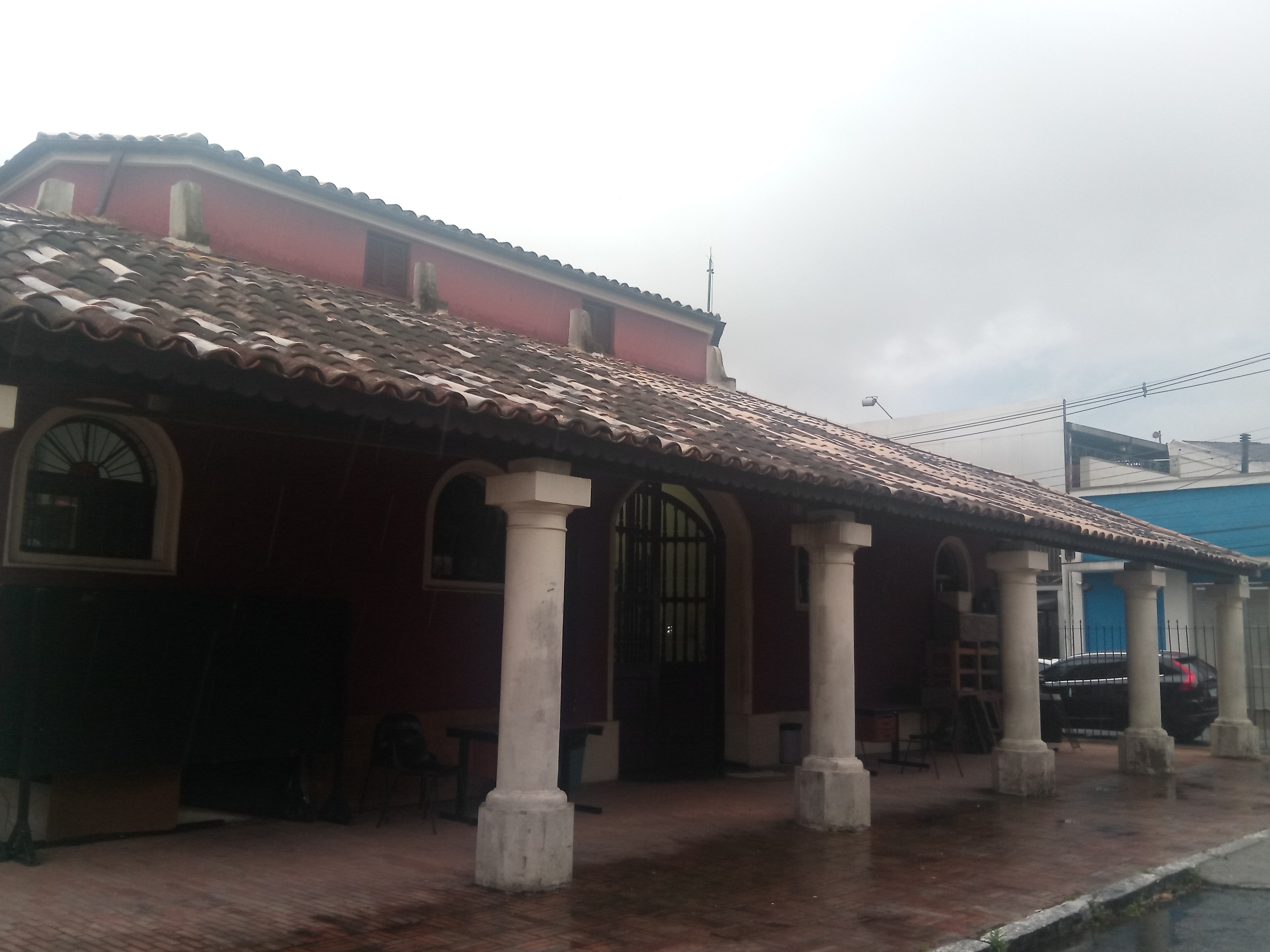 Fachada sul da Casa da Cultura de Santo Amaro, em São Paulo (SP), Brasil.